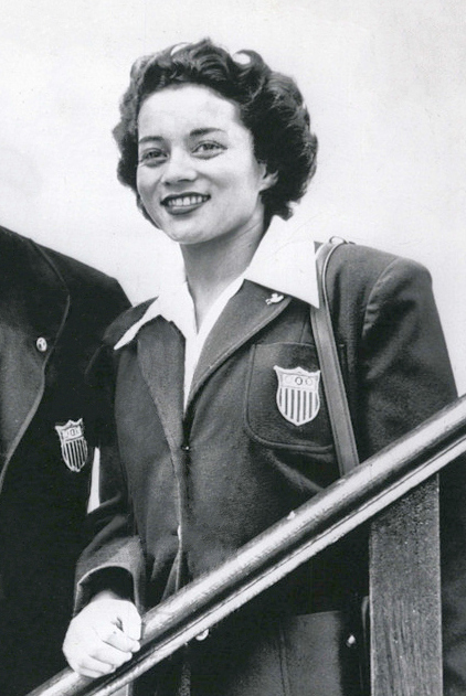 Vicki Draves in New York, returning from the 1948 Olympic Games